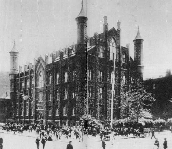 A picture of the Free Adademy on 23rd Street and Lexington Avenue in New York City in the 1800s. Original source image at: It is over 100 years old and out of copyright.